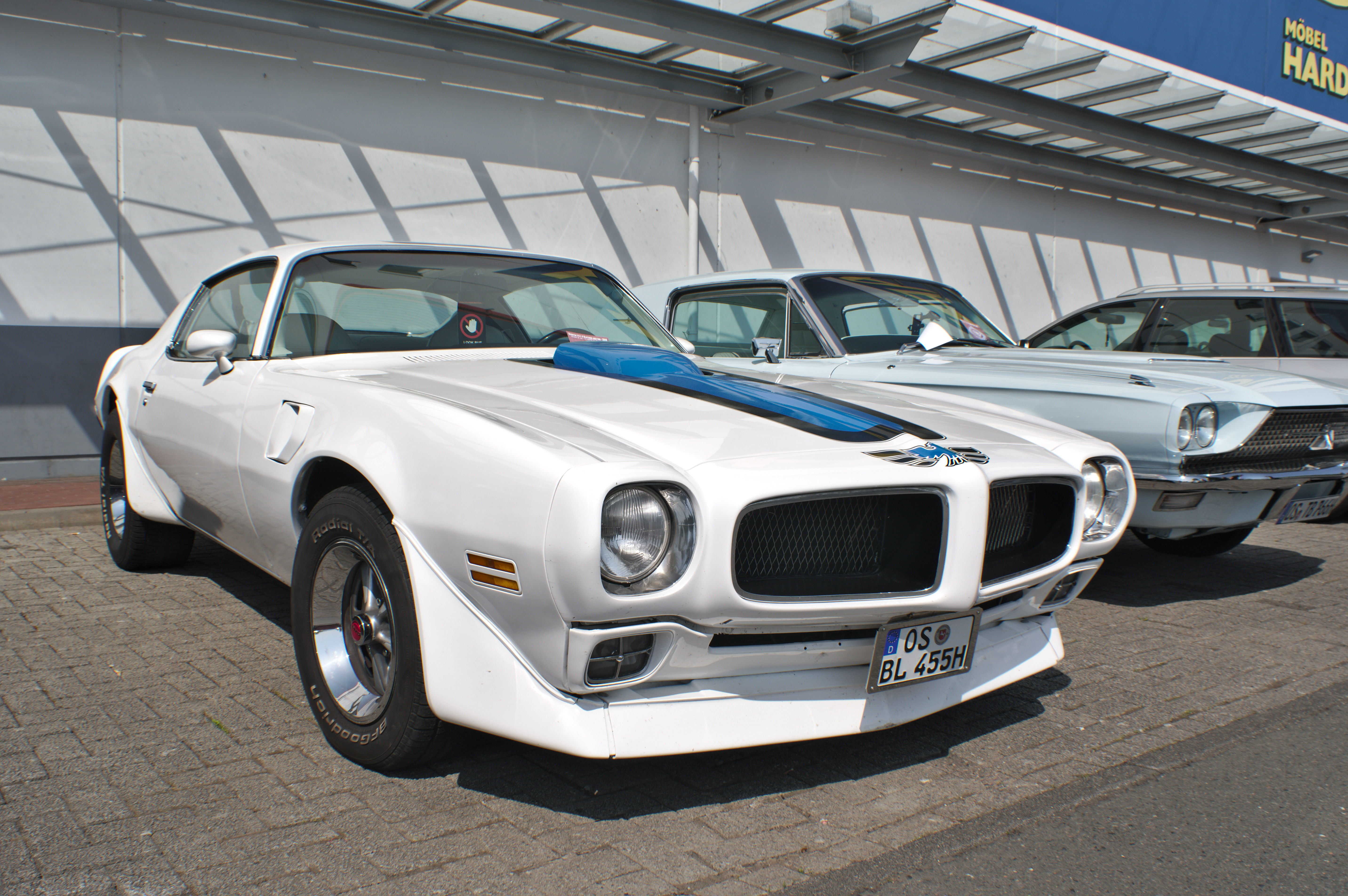 American Freeway Car Club Treffen 2018